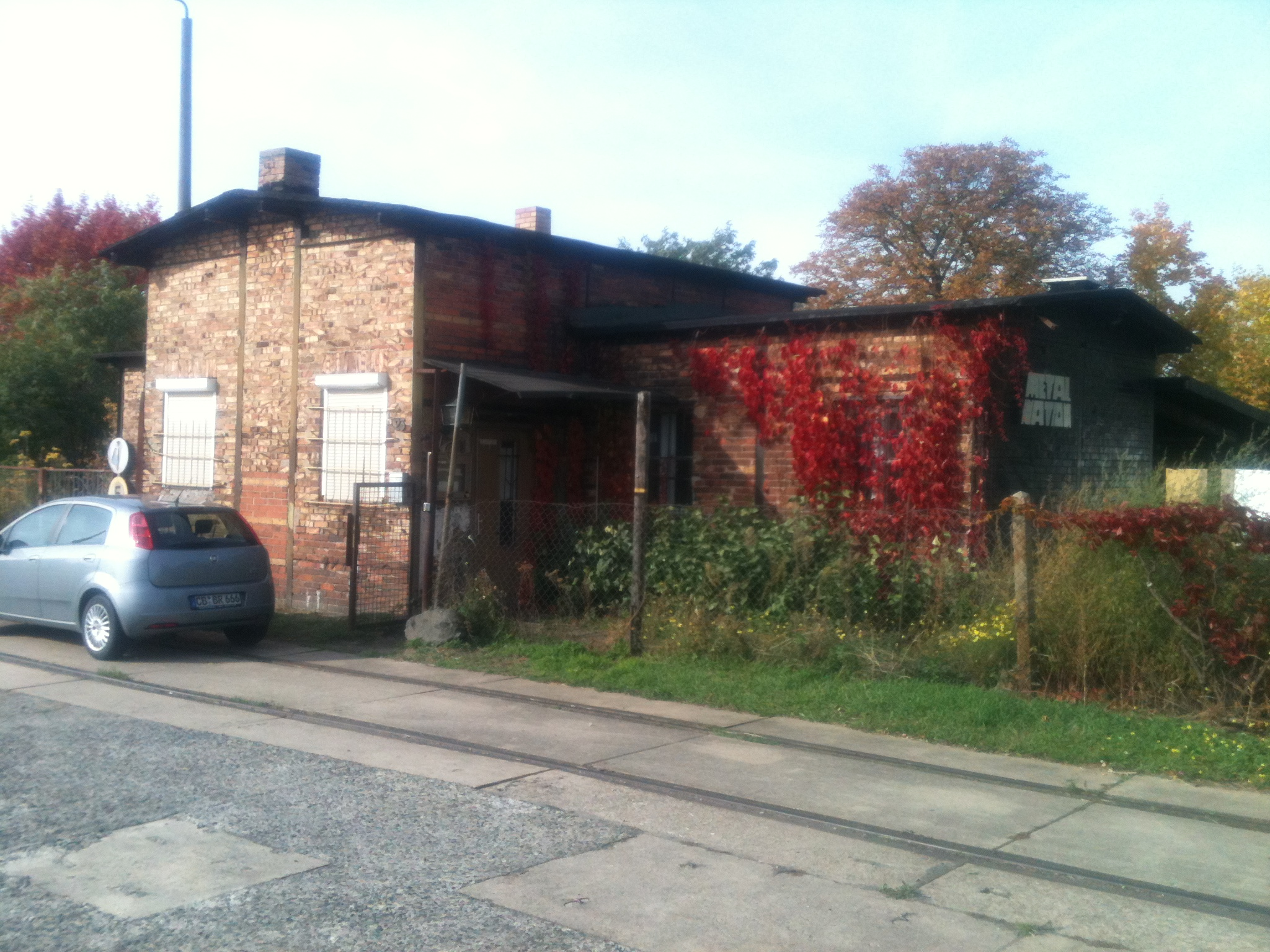 blacksmith headquarters in Cottbus, Germany